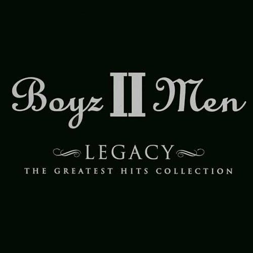 Boyz II Men album cover Legacy: The Greatest Hits Collection Note: Per the United States Copyright Office: "familiar symbols or designs; mere variations of typographic ornamentation, lettering, or coloring ... typeface as typefaced are not subject to copyright. Also see Image_casebook Trademarks